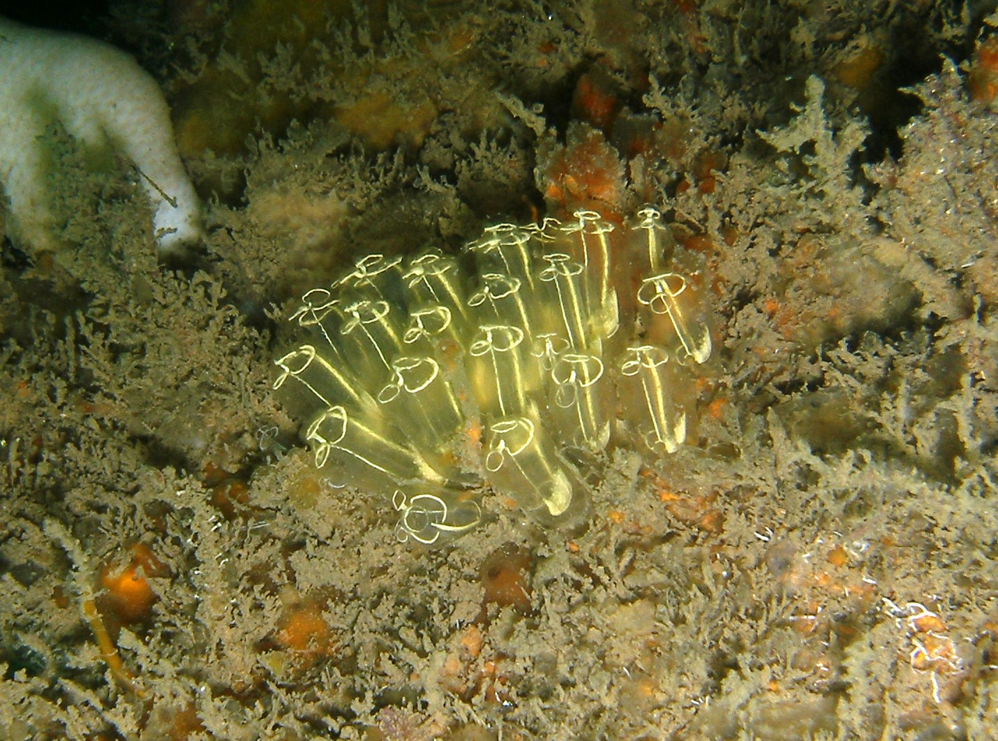 Light-bulb sea squirt (Clavelina lepadiformis) colony growing on a wreck in the English Channel.